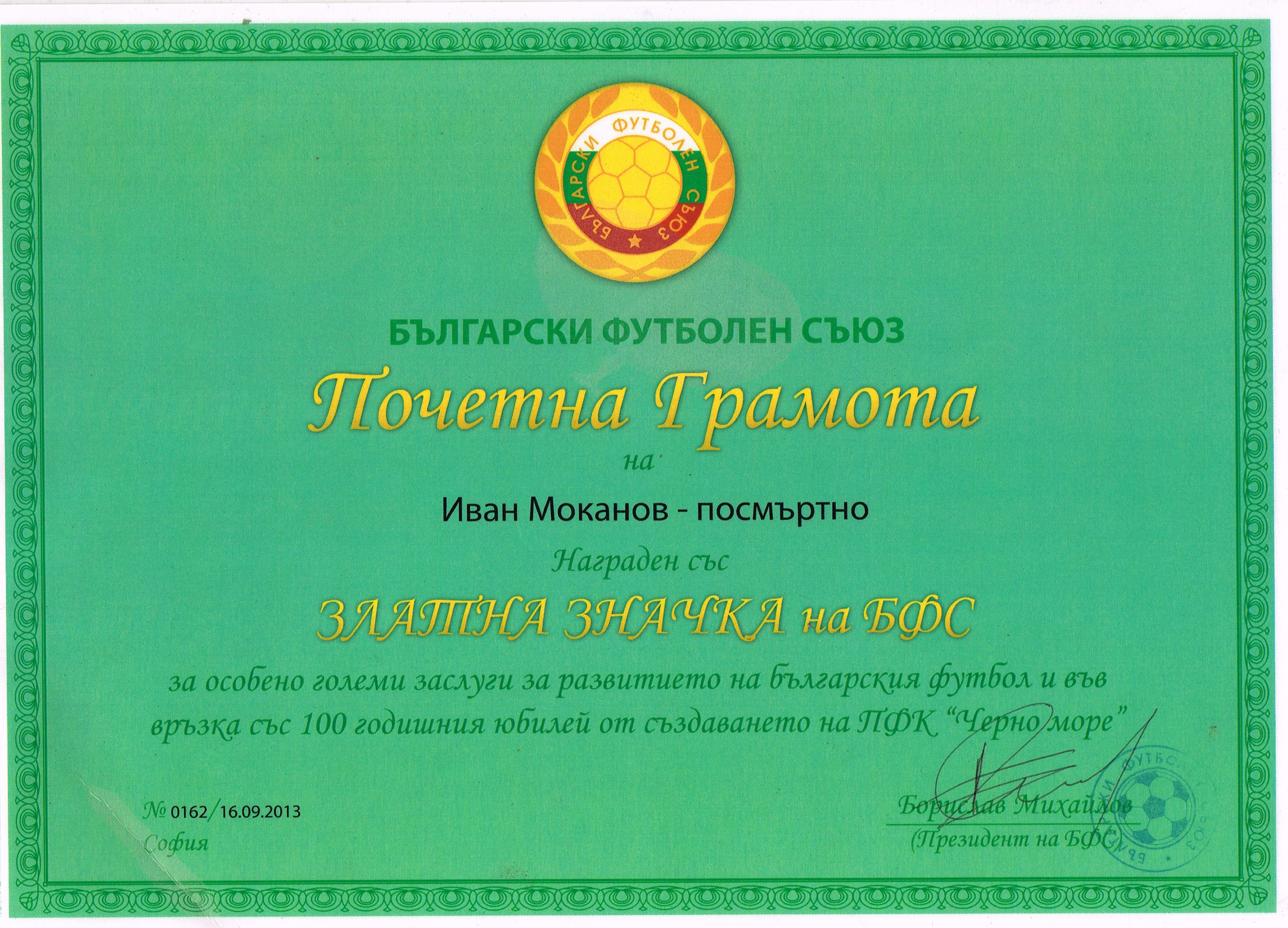 Honorary Diploma of Ivan Mokanov, issued by the Bulgarian Football Union on 16 September 2013. The image is a scanned copy of the original document which was kindly given by Ivan Mokanov's famly.